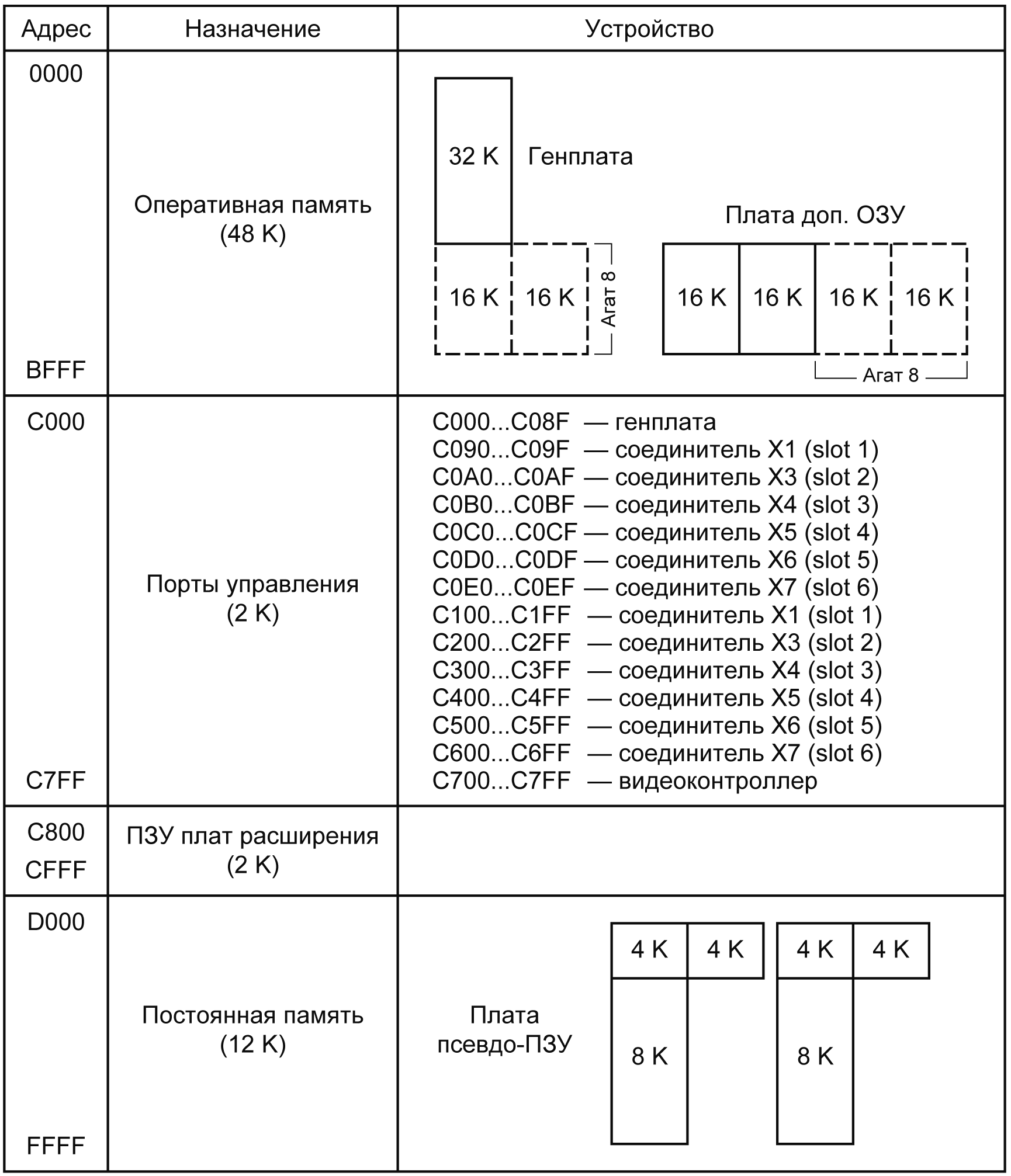 Agat-7 computer memory structure